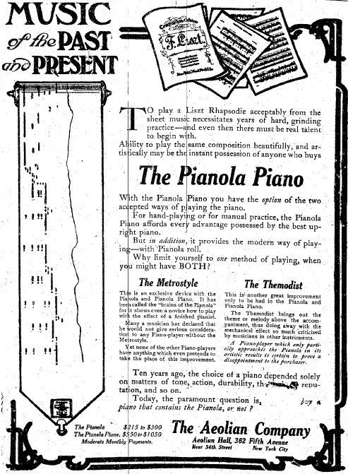 This is an ad for The Aeolian Company from The New York Times dated October 26, 1908.